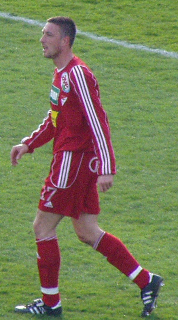 Norbert Mészáros Hungarian football player